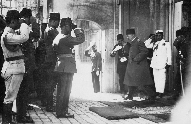 Sultan Vahideddin (Mehmed VI) departing from the backdoor of the Dolmabahçe Palace in Istanbul. A few days after this picture was taken, the Sultan was deposed and exiled (along with his son) on a British warship to Malta (November 17, 1922), then to San Remo, Italy, where he eventually died in 1926. His body was buried in Damascus at the courtyard of the Tekke of Sultan Suleiman the Magnificent. Turkey was declared a Republic on October 29, 1923, and the new Head of State became President Mustafa Kemal Atatürk.